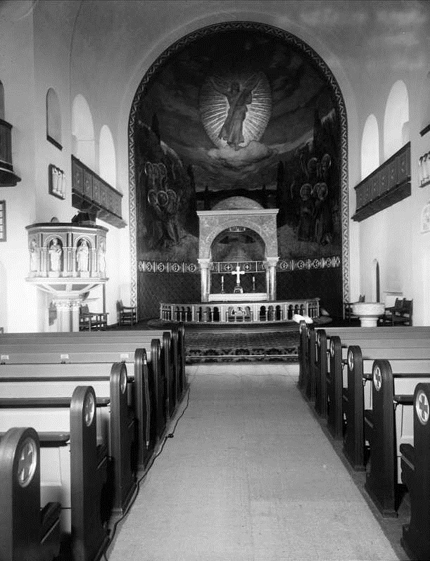 Ullern church in Oslo with fresco by Eilif Peterssen.